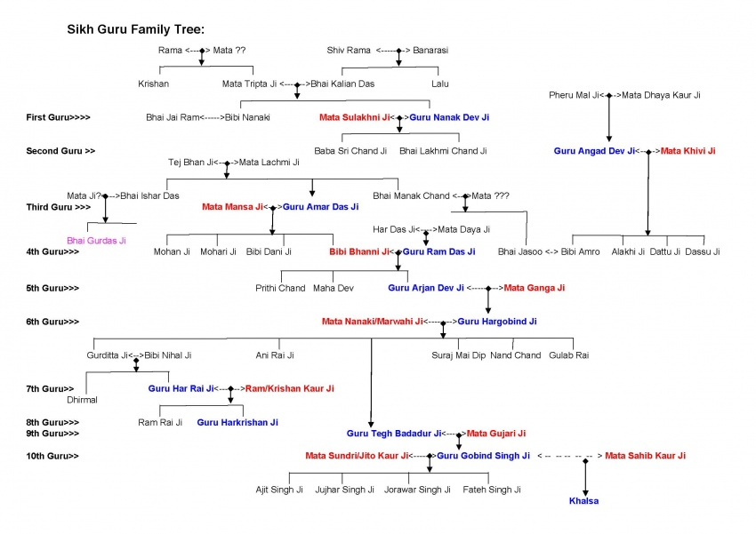 It is the view of Family tree of Sikh Guru